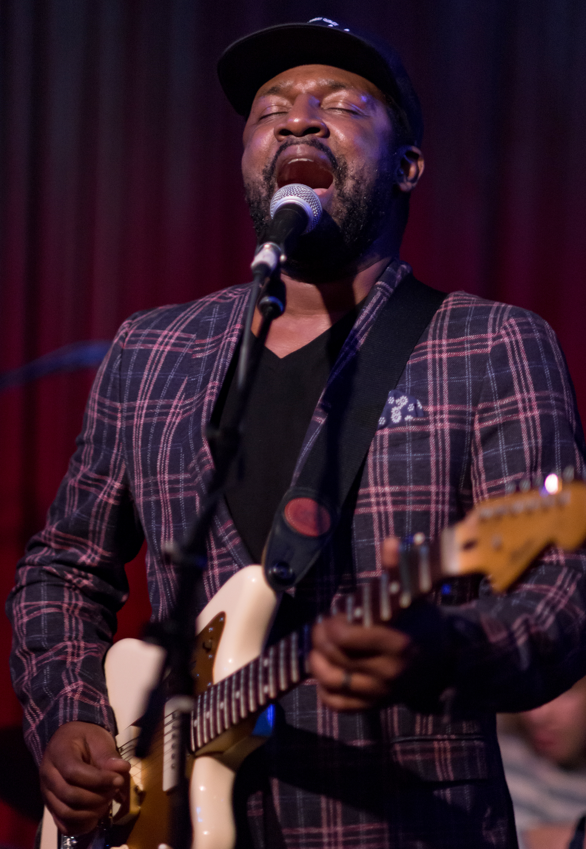 David Ryan Harris performing live at the Hotel Cafe in Hollywood, Los Angeles, California, on Saturday, November 11, 2017.